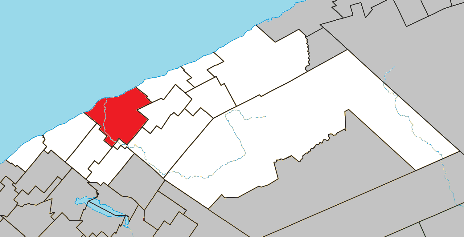 Location of Matane, Quebec within Matane Regional County Municipality.